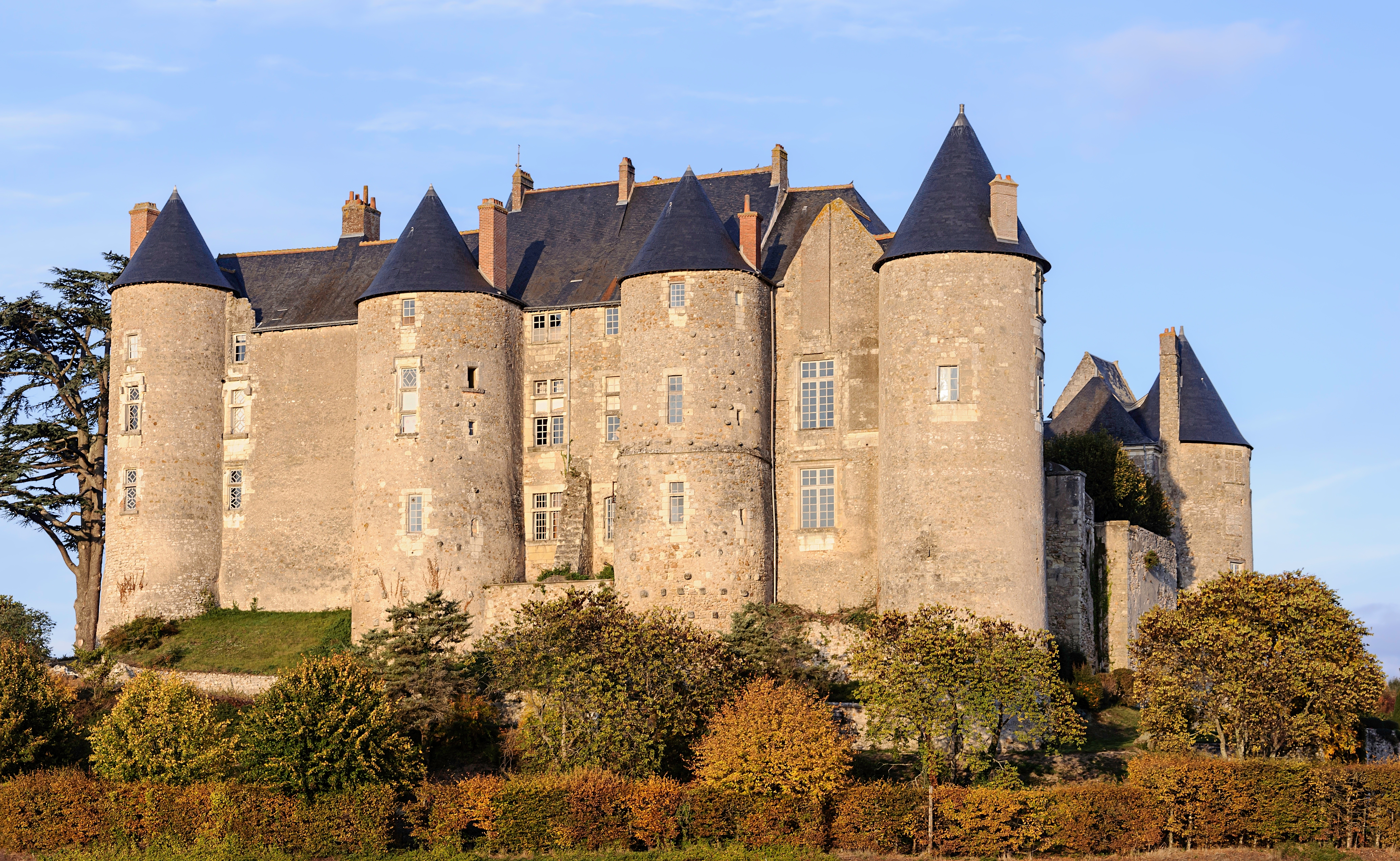 Luynes Castle in the end of the afternoon, in Luynes, Indre-et-Loire, France.